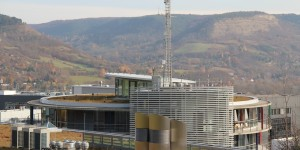 Weather station on the rooftop of the Max Planck Institute for Biogeochemistry